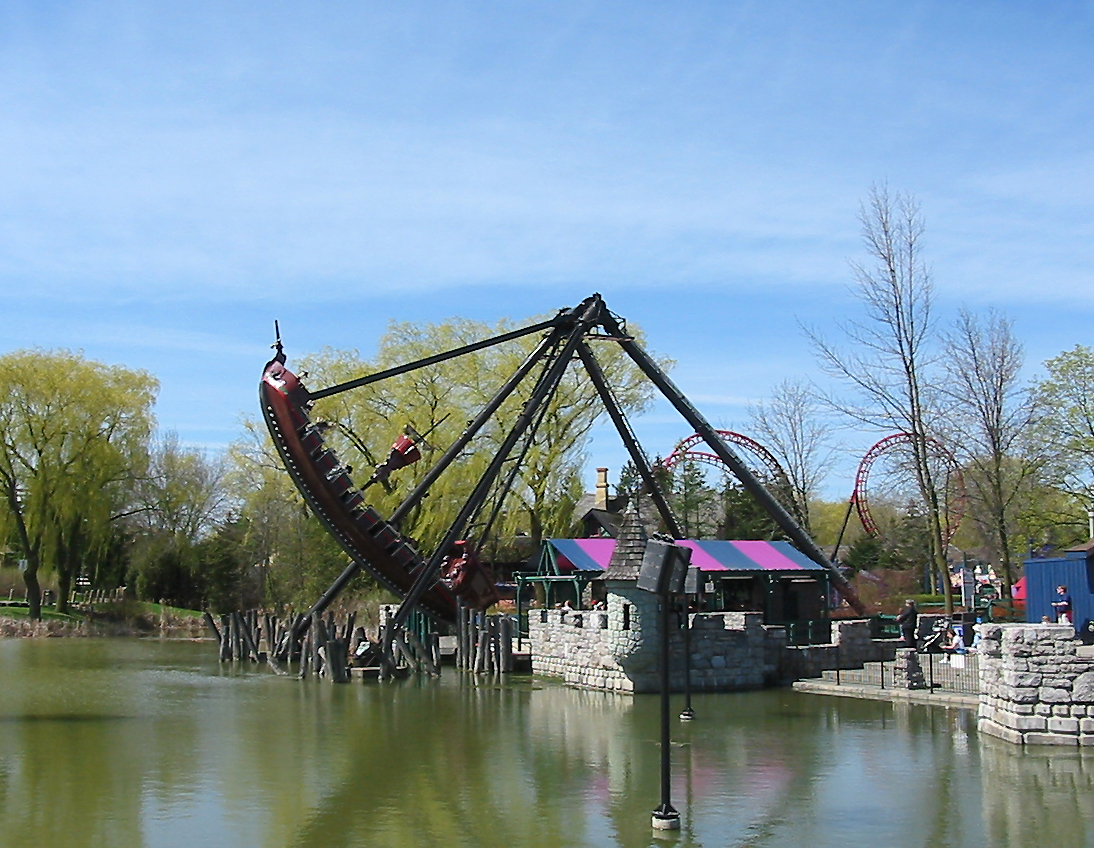 This is a photo of The Rage during the 2007 season.